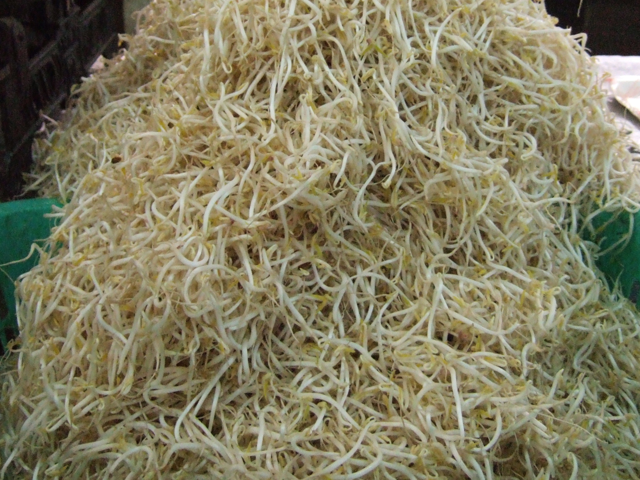 Bean sprouts at the market, North Jakarta, Indonesia. 量り売りのもやし（ジャカルタの市場にて）